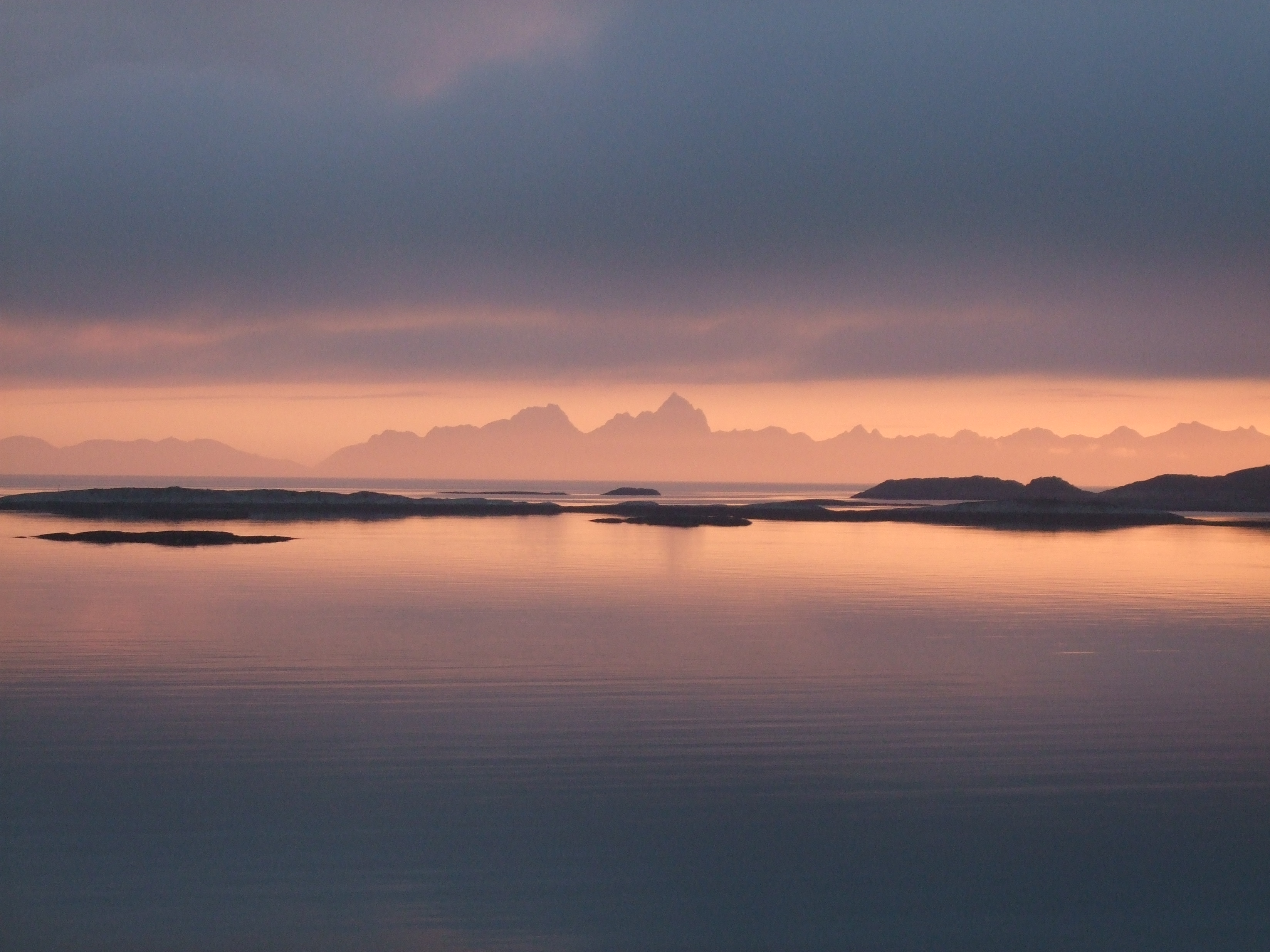 The Vestfjord with the mountains of Lofoten seen from the island of Løvøy in Steigen. The mountain Vågakaillen (942 meters high) is the tallest of the two peaks in the center of the image